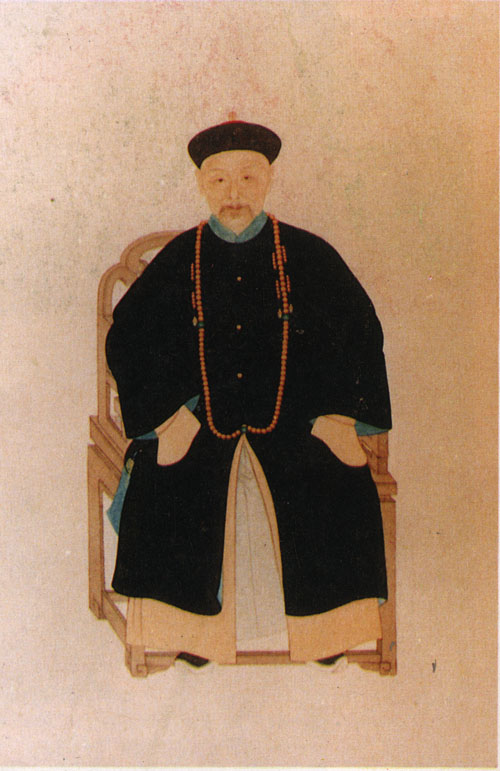 Ortai (Manchu: ᠣᡵᡨᠠᡳ; Möllendorff: ortai